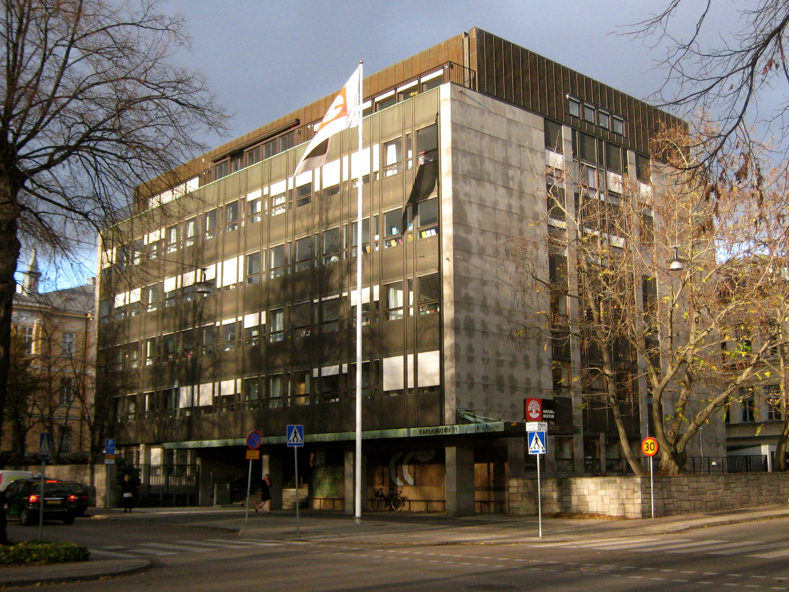 Skogsindustrihuset på Villagatan 1, korsningen mot Karlavägen.